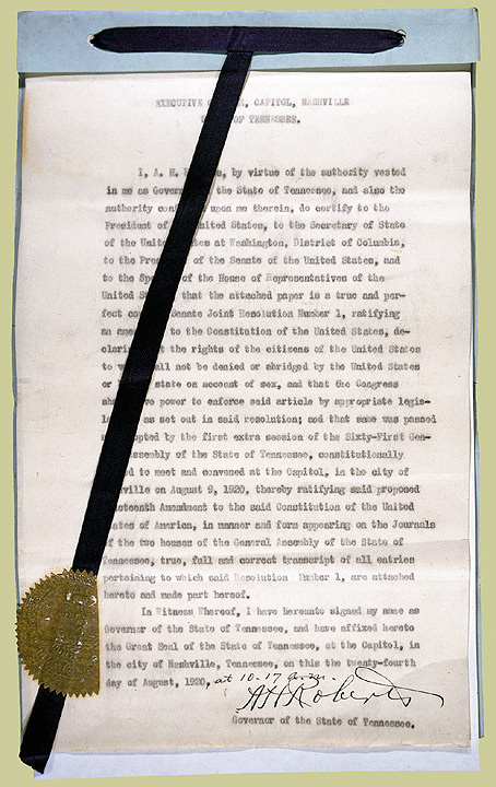 Color photograph of Tennessee's certificate of ratification of the 19th Amendment, dated August 24, 1920. Tennessee was the 36th state to ratify the amendment, that being the number of states required for full ratification.